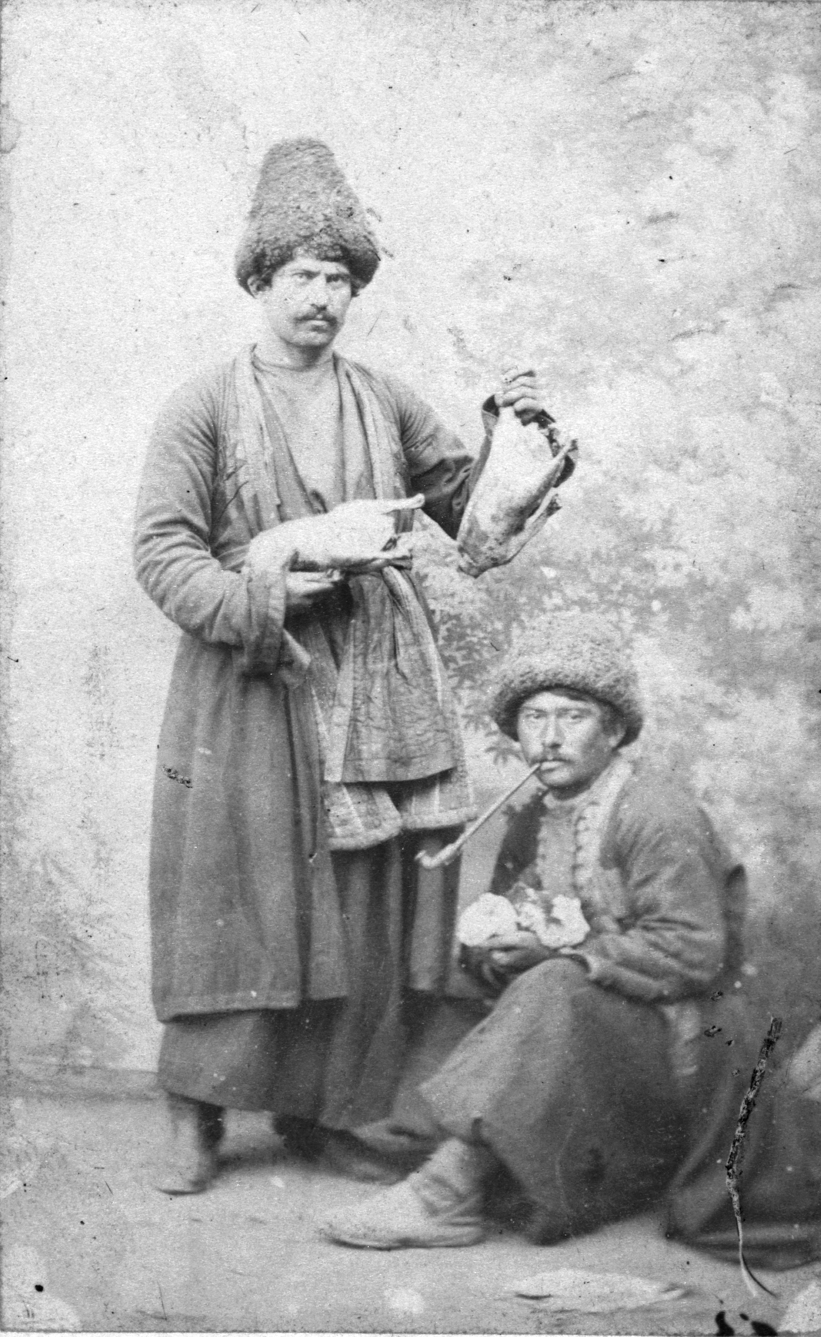 Full-length portrait of two men, one seated, one standing, facing front.